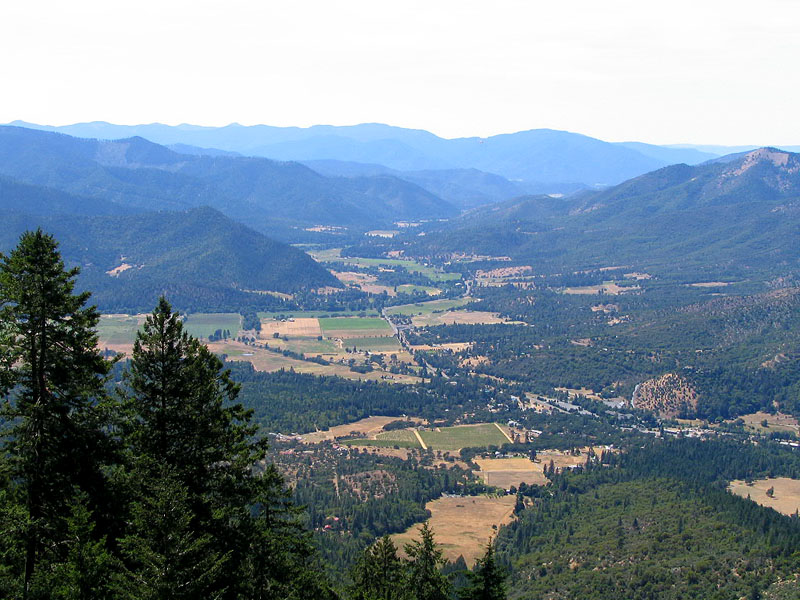 Image taken 2007 by M. D. Vaden of Oregon from the top of Woodrat Mountain. Overlooking part of Applegate Valley where Hy. 238 intersects Upper Applegate Rd.. Applegate Lake would be to the left, and Applegate Community is behind the hill at the upper right. Ruch is the community seen here.